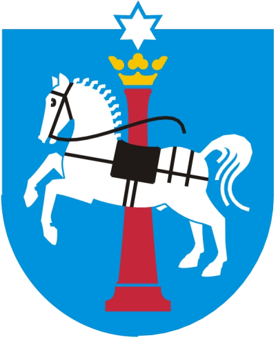 Official coat of arms of the German city of Wolfenbüttel.